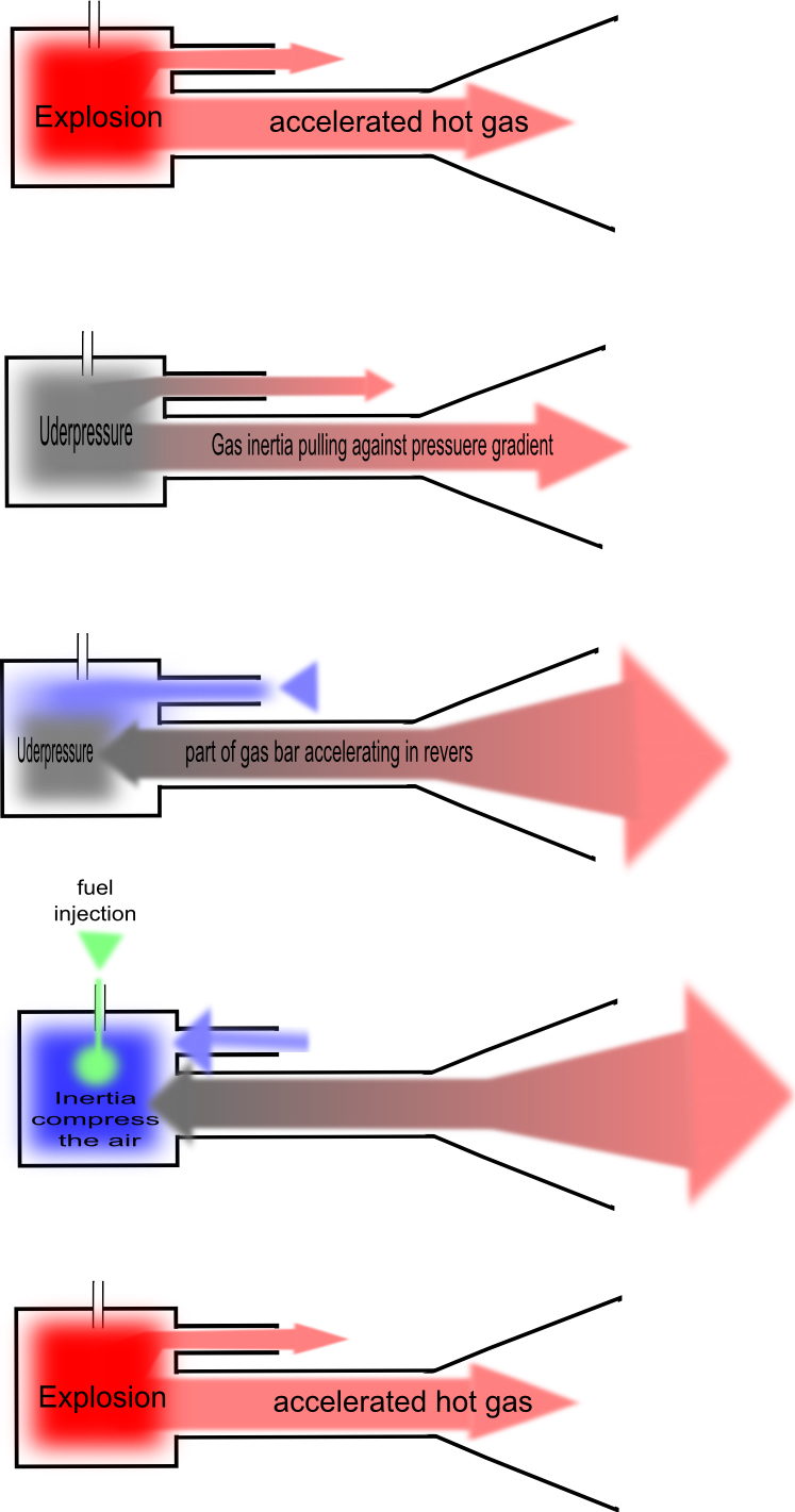 Basic operation of the valveless pulse-jet engine.